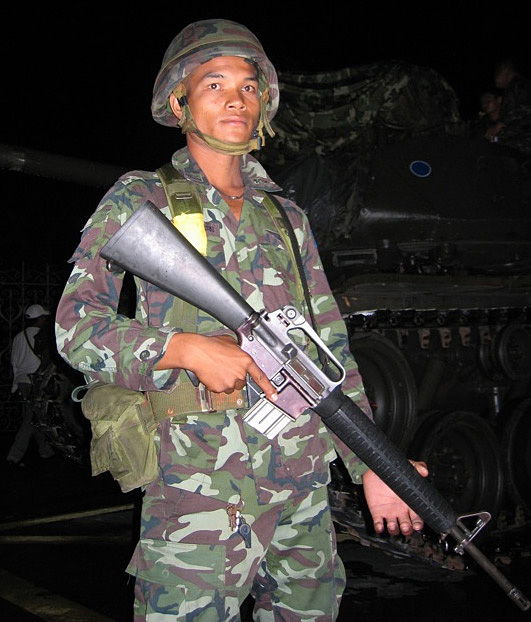 Royal Thai Army soldier armed with M16A2 stands on the streets of Bangkok following the 2006 Thailand coup d'état.